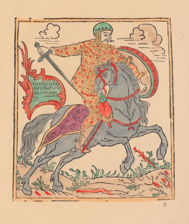 Silny slavny bogatyr' usynia gorynych